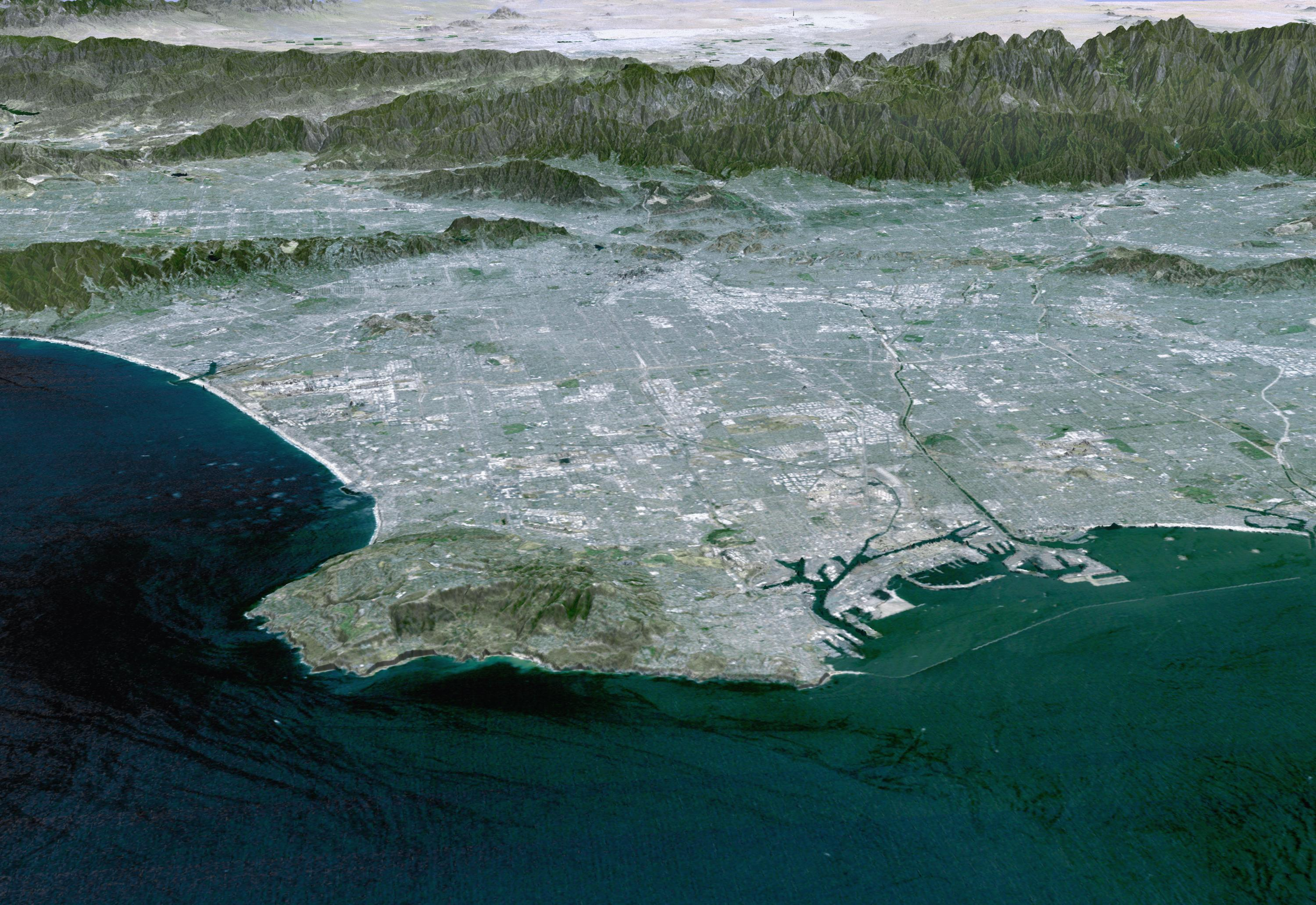 3-D Perspective image of the Los Angeles Basin from the Landsat satellite using NASA's Shuttle Radar Topography Mission (SRTM) for topography information. The vertical scale is exaggerated one and half times.